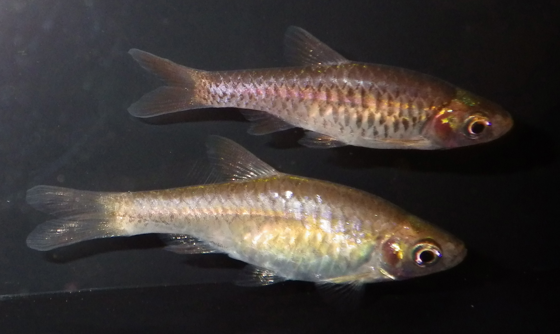 Pair of Rasbora vulcanus. Male above.